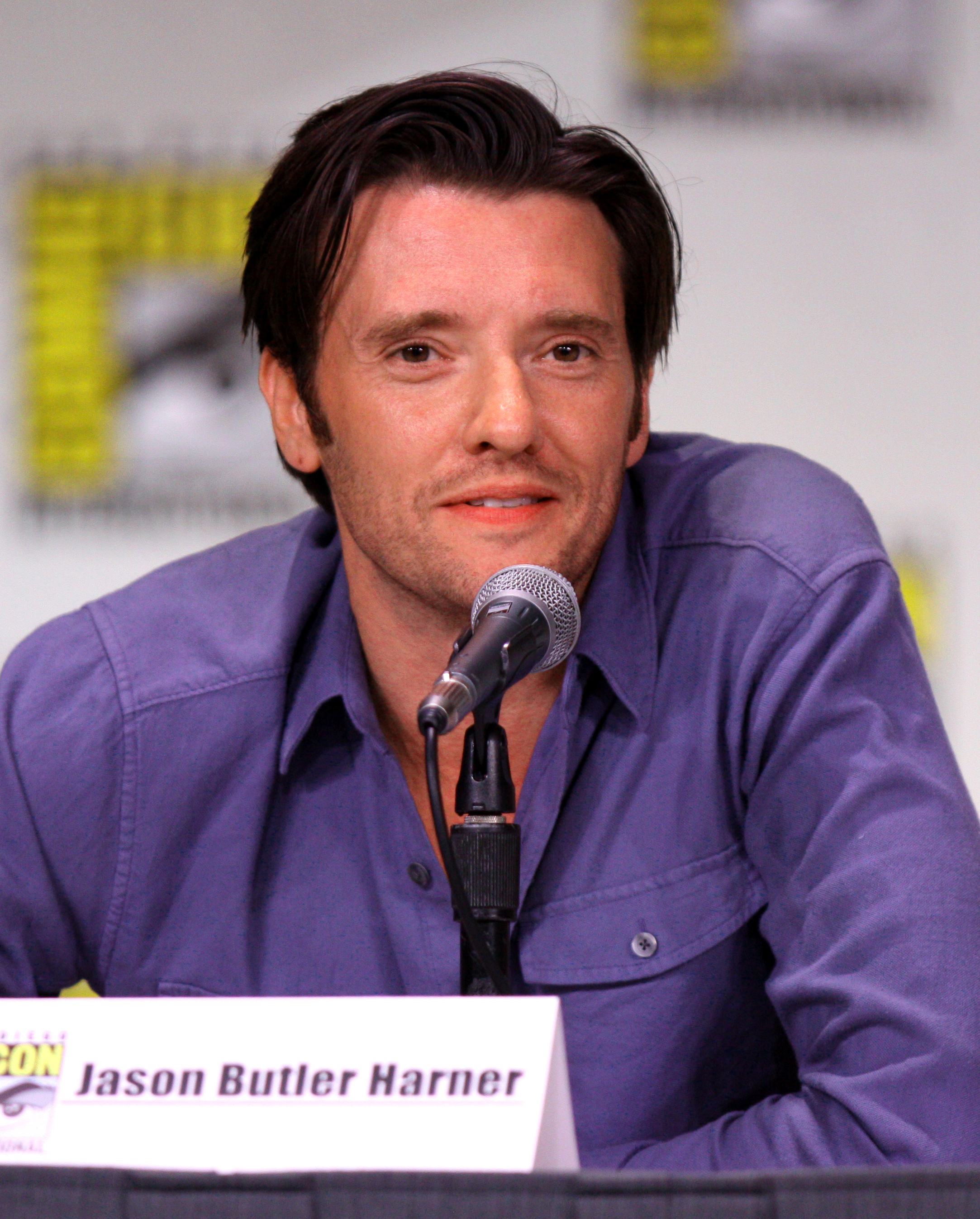 Jason Butler Harner at the 2011 Comic Con in San Diego